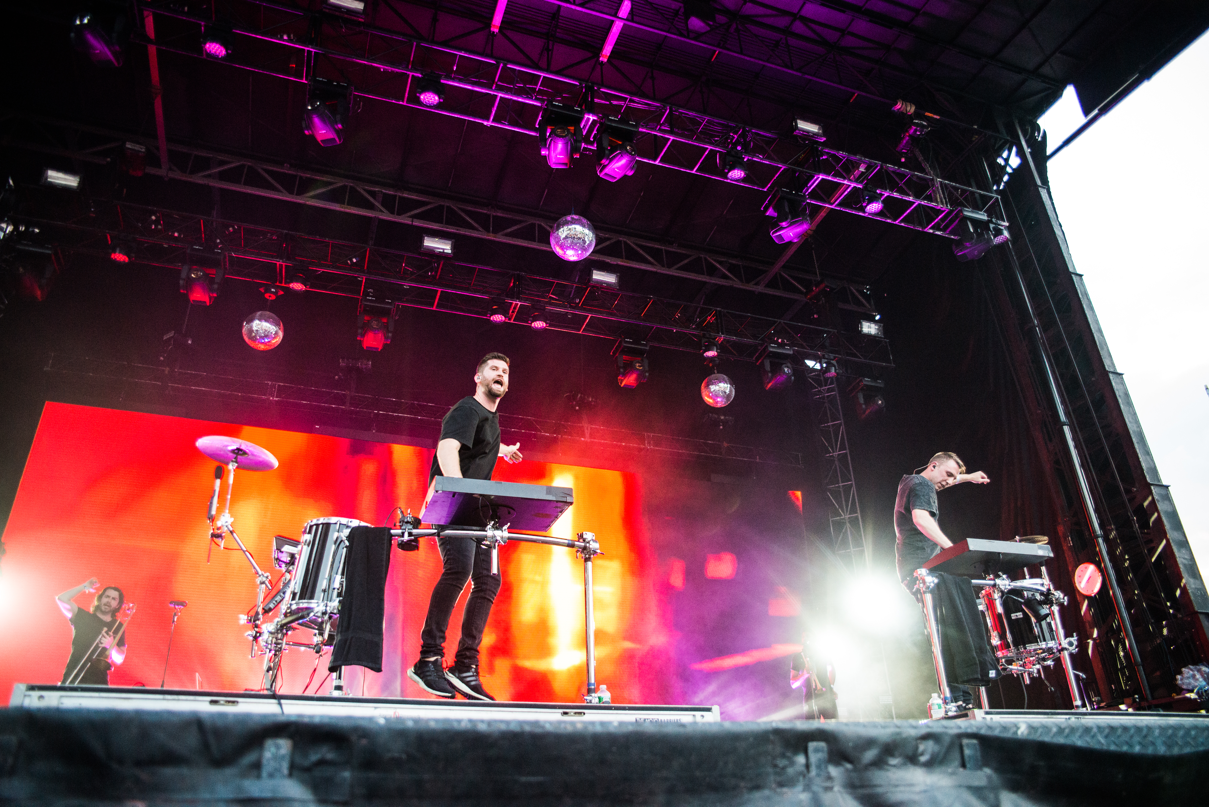 Boston Calling Day Two: Robyn, Odeza, Miike Snow, City and Colour, Courtney Barnett, Børns, The Vaccines, Battles, Lizzo, Palehound. Photos © 2016 by Andy Moran.